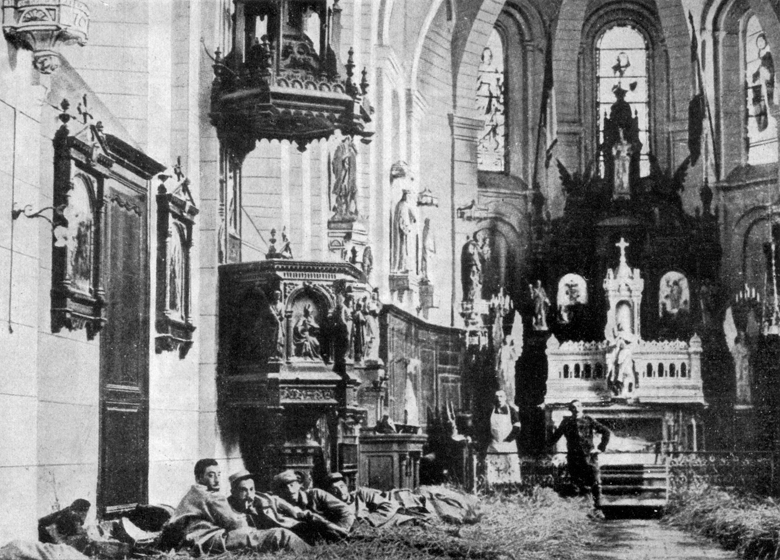 HOSPITAL UNPREPAREDNESS: AN OBJECT-LESSON FOR AMERICA. In the early days of the war, before the French Red Cross had fully organized its resources, it frequently happened that straw strewn upon marble flags was the only make-shift for beds which could be provided for the wounded. This straw proved most unfortunate for the wounded, as it was often infected with tetanus germs. Here, beneath the altar of their faith, in the Church of Aubigny, converted into a hospital, the fighting men of France reconsecrated their lives to the cause.